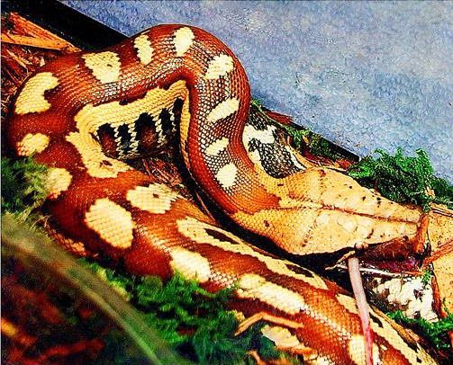 Young blood python (Python curtus)